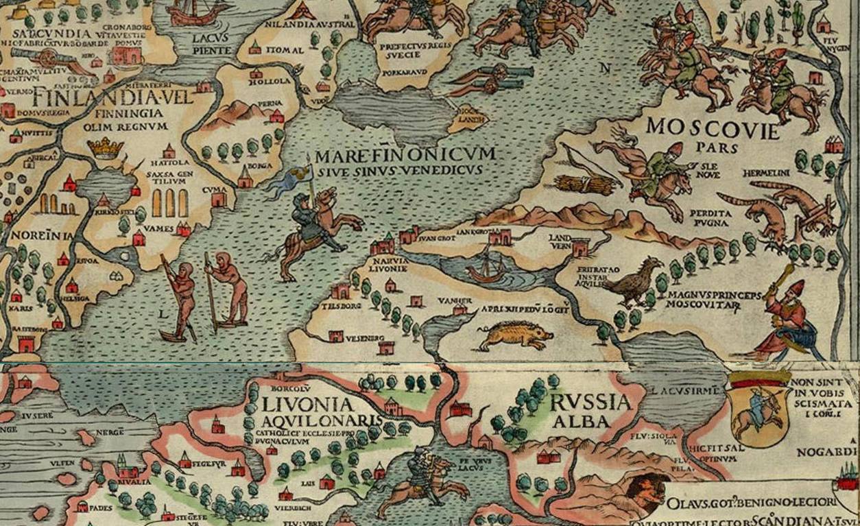 Fragment of the map Carta marina